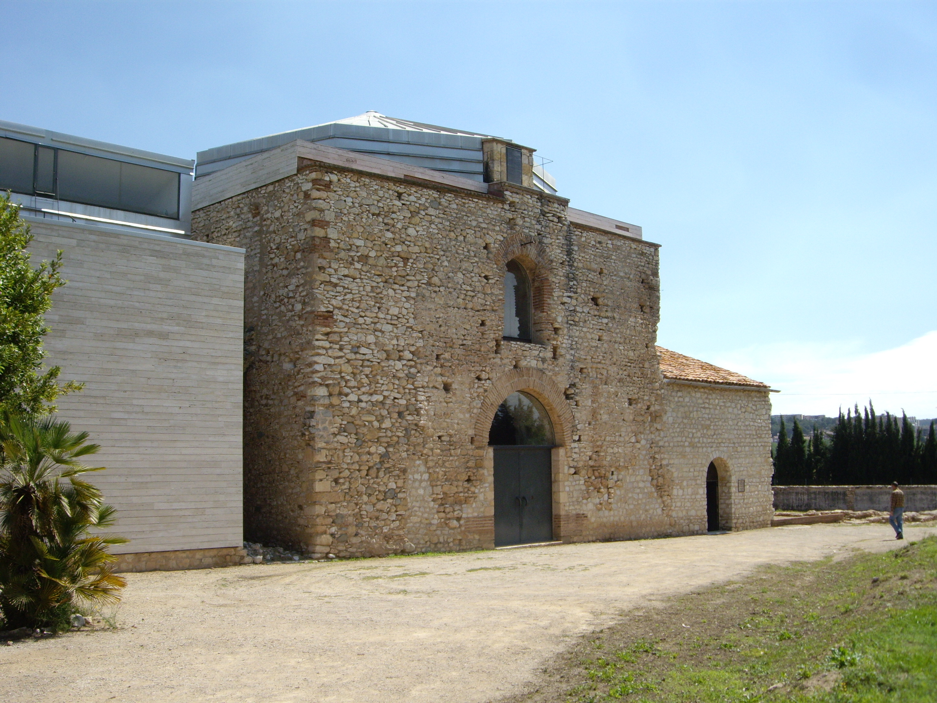 Exterior view of the Mausoleum of Centcelles, Constantí.